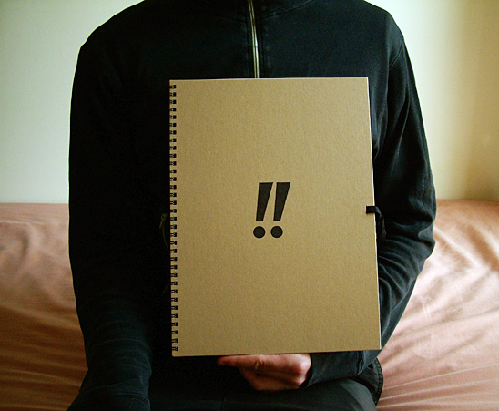 The sampler called '!!' (Attention, Attention) is about urban writing and contents on different information signs. The photographs of signs and graffiti were taken in London and mainly in east part of the city. 20 pages of the book includes 4 polaroids and 20 inkjet prints.